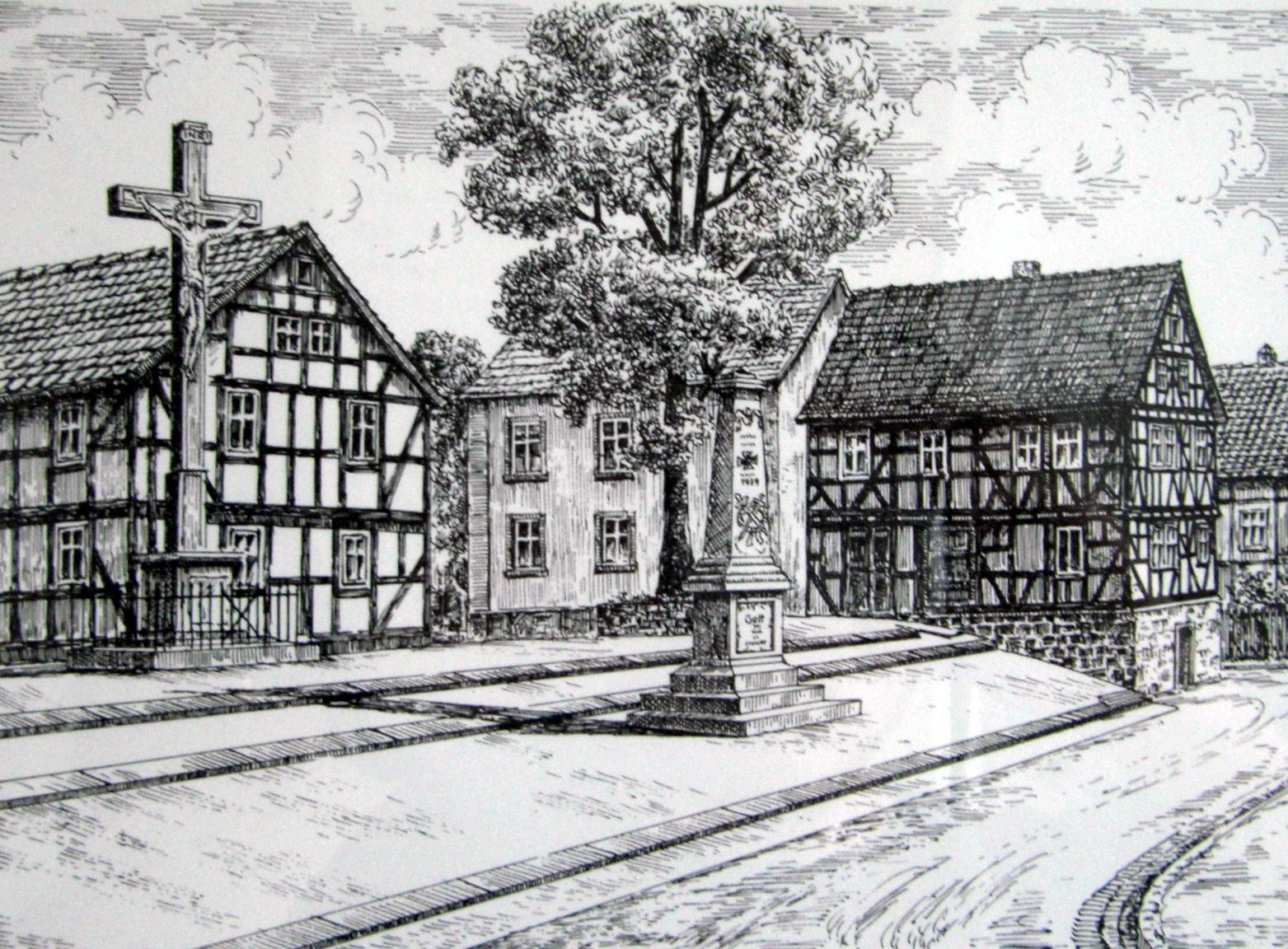 Painting of the church square in Flieden with old school building and hotel "Zur Linde".